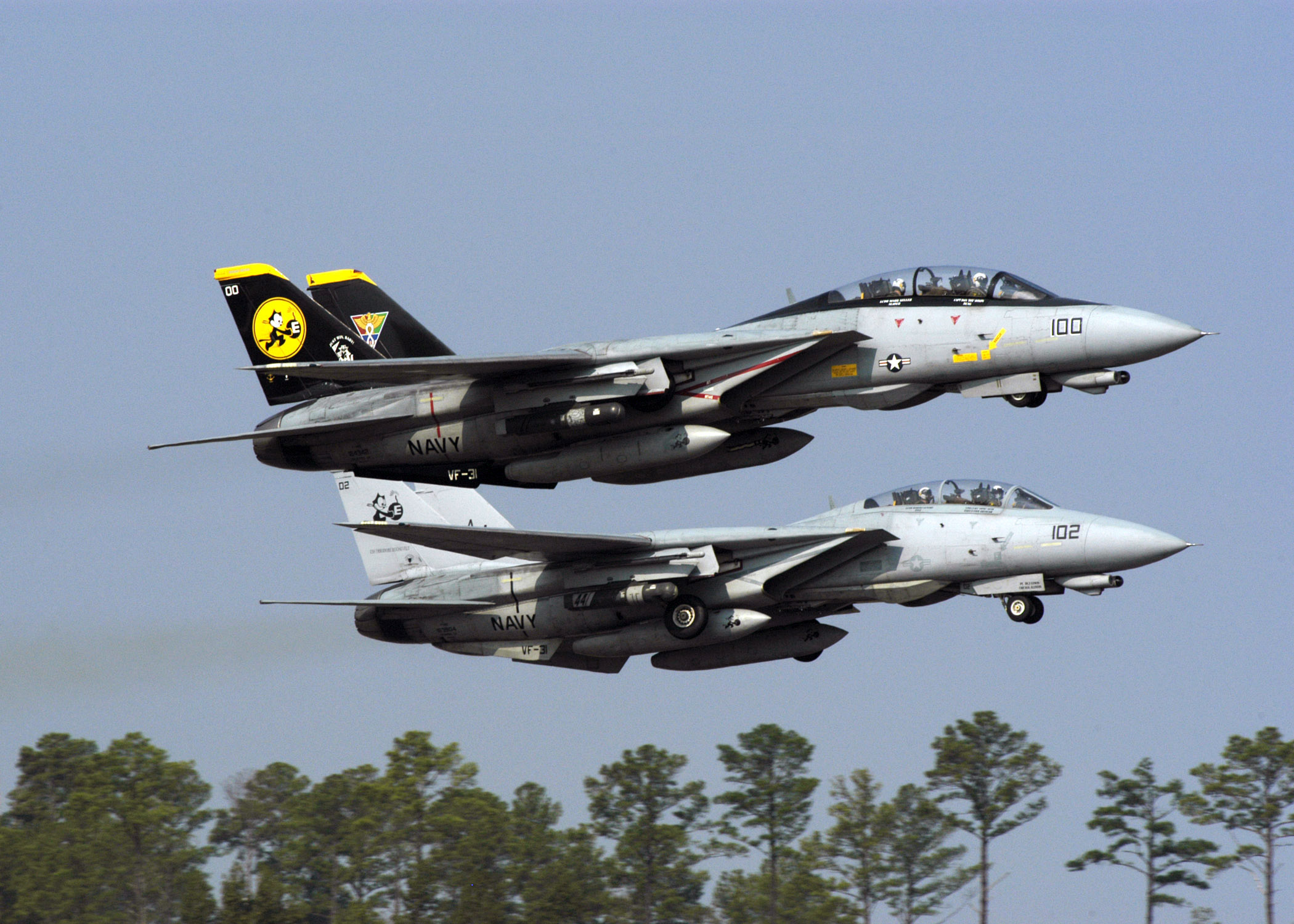 Two U.S. Navy Grumman F-14D Tomcat aircraft from Fighter Squadron 31 (VF-31) "Tomcatters" take off during the 2006 Naval Air Station Oceana Air Show in Virginia (USA).